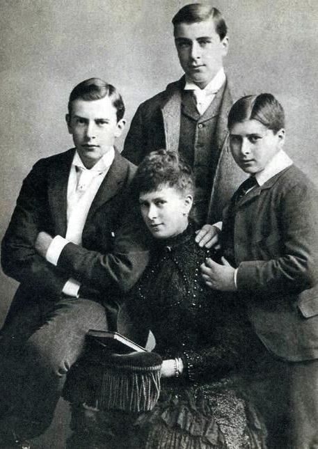 Queen Mary and her little brothers